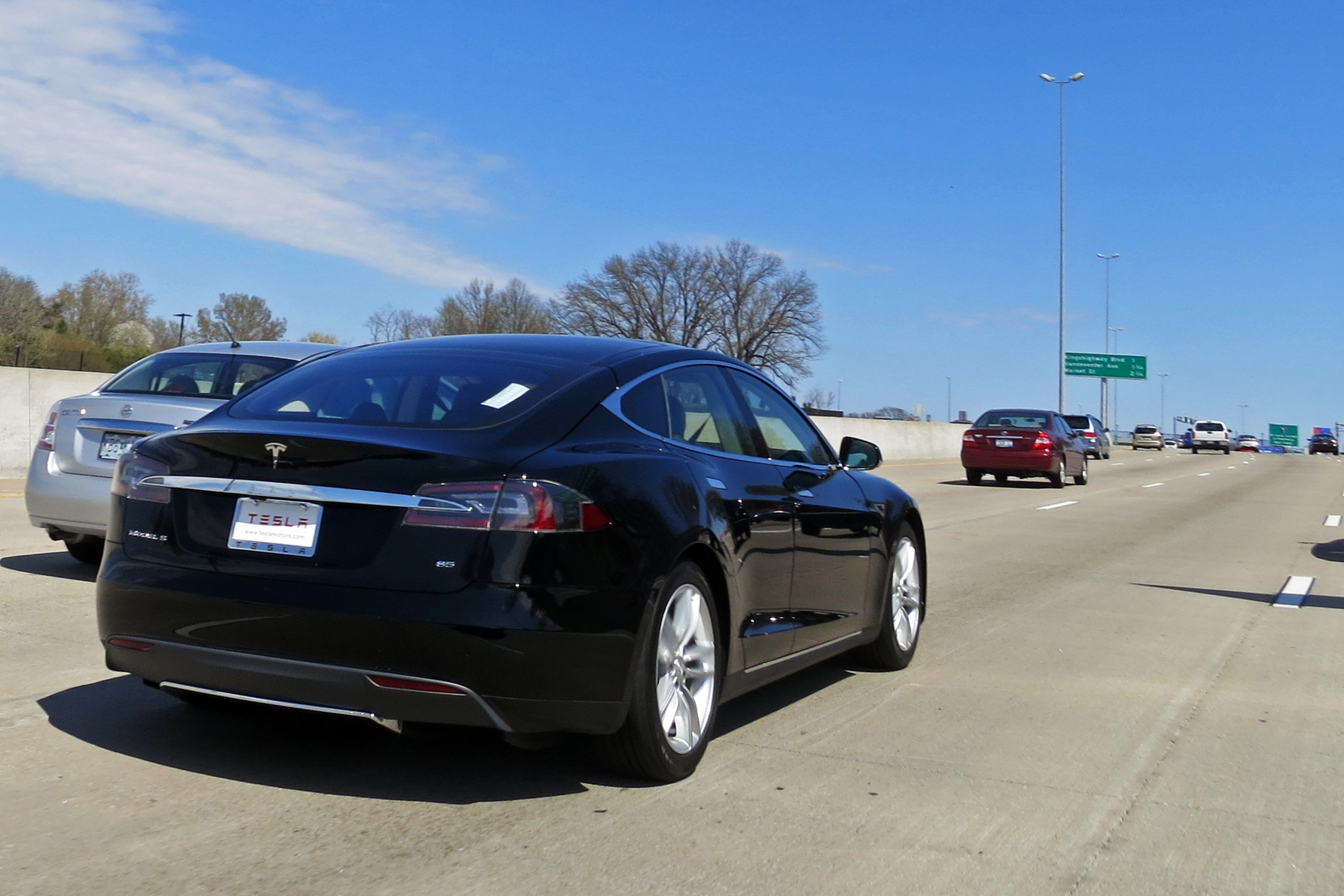 Tesla Model S on Highway 40, St. Louis, MO